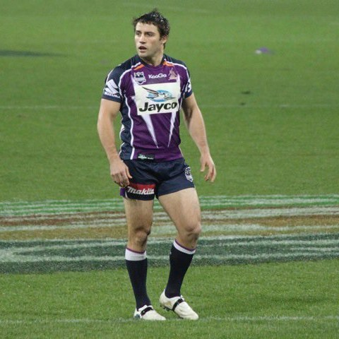 Cooper Cronk playing for the melbourne storm vs panthers in 2010